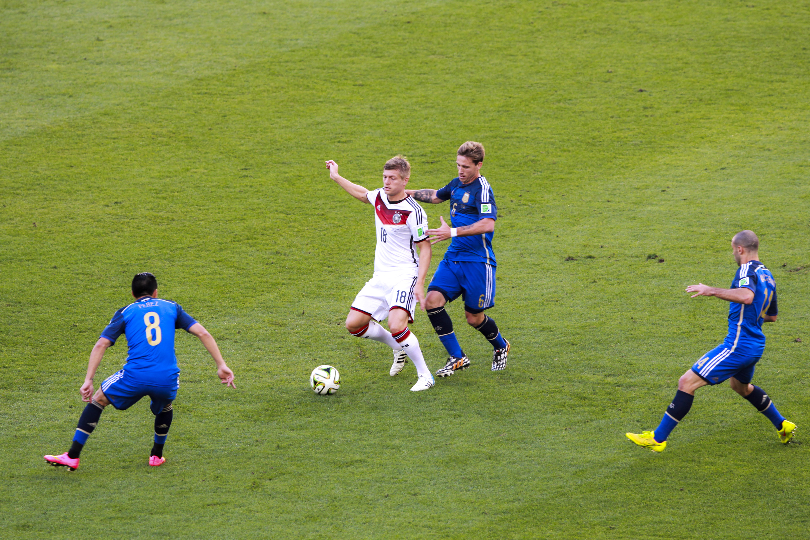 The final match of World Cup 2014 between Germany and Argentina 2014-07-13